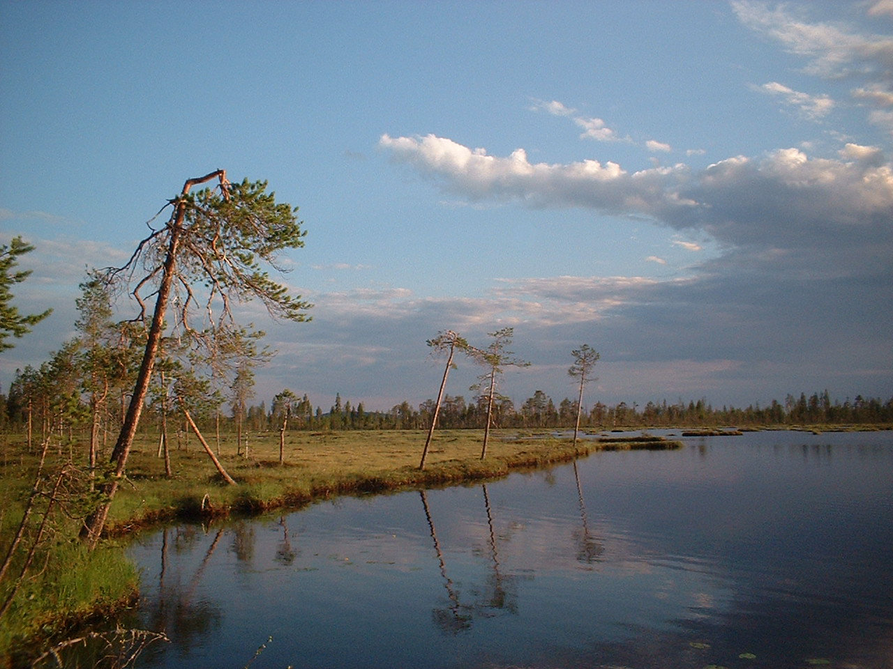 Swampland near Liikasenvaara, Kuusamo, Finland